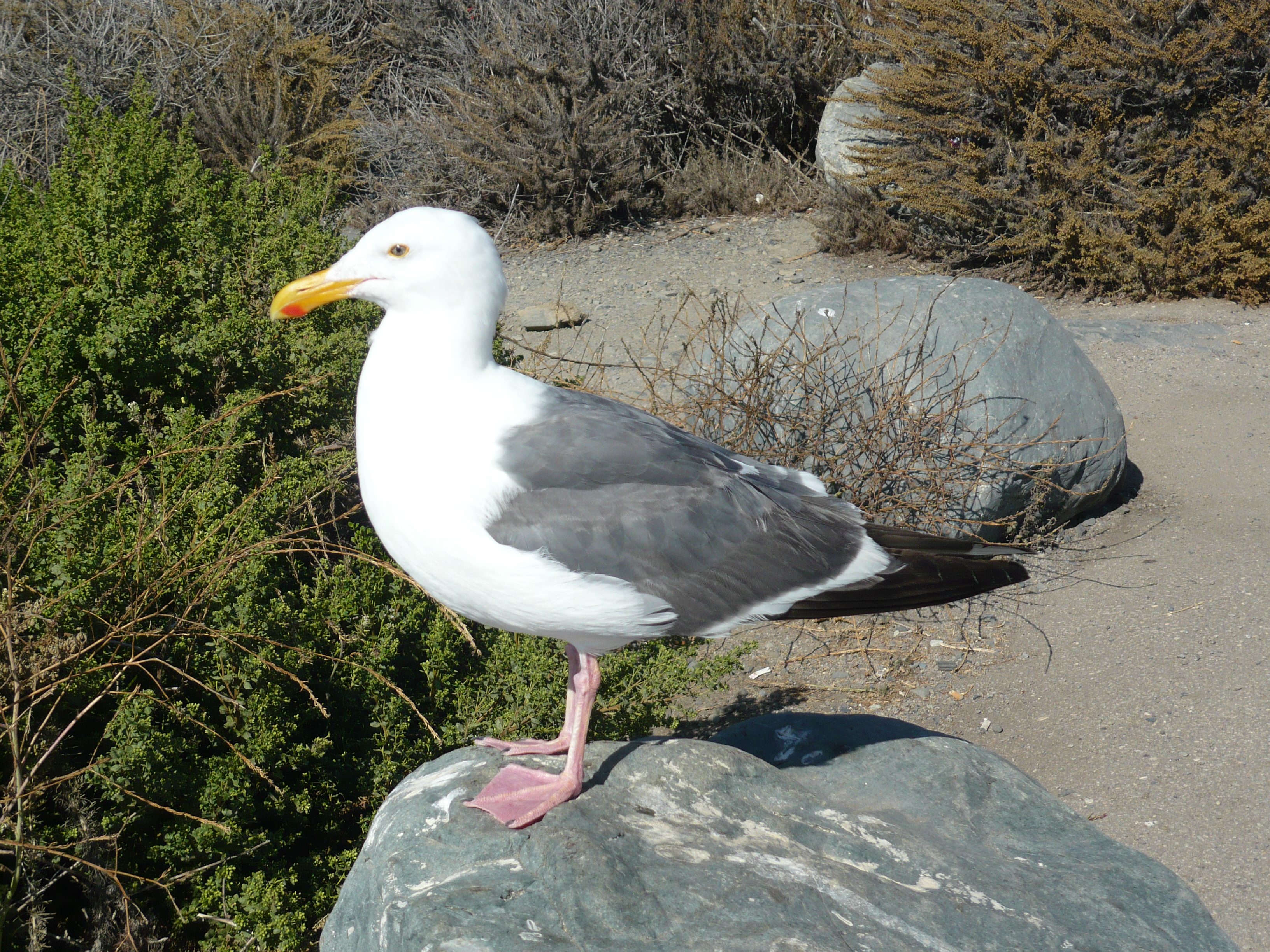 Western Gull (larus occidentalis), side view